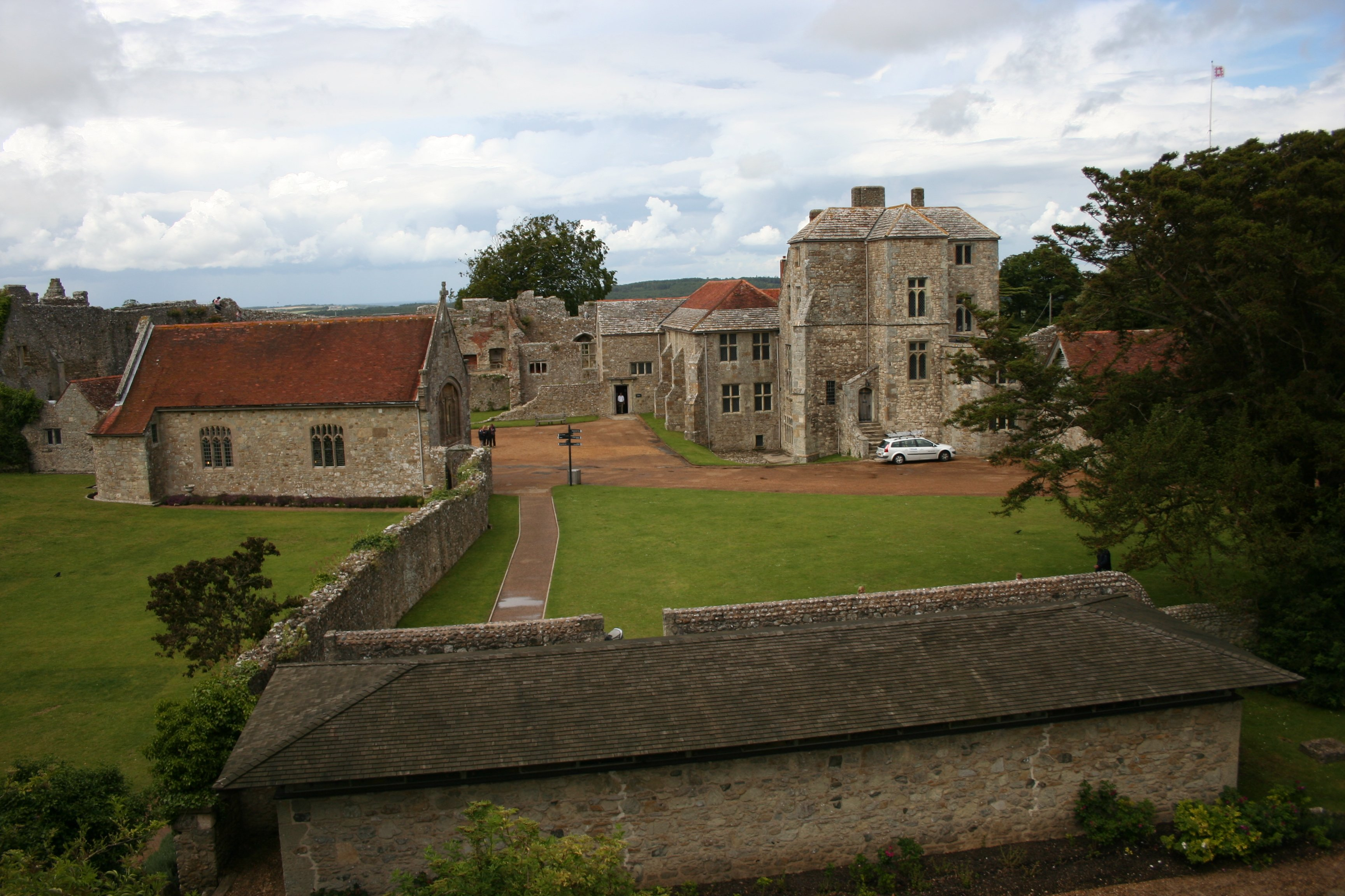 Grounds of Carisbrooke Castle